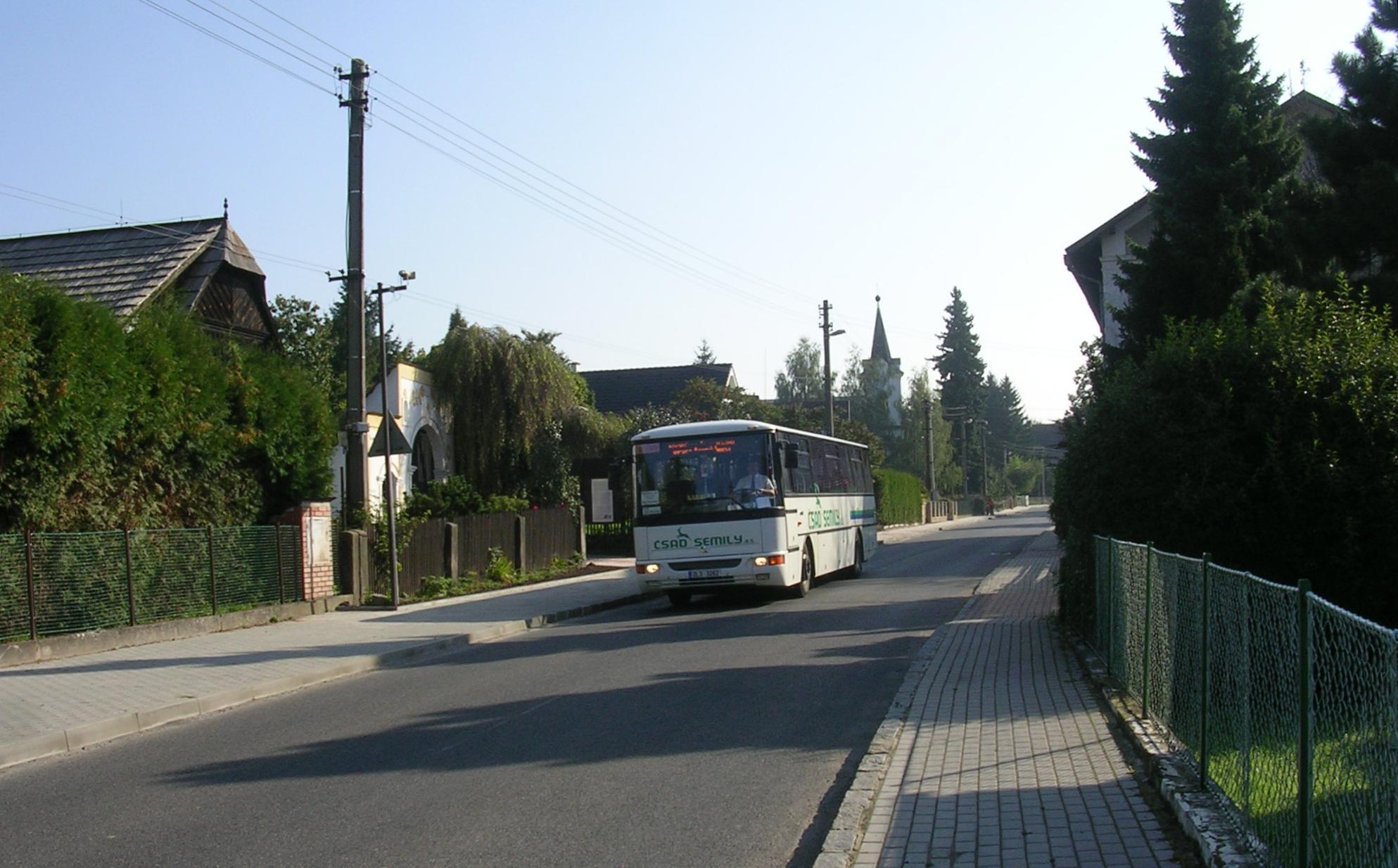 Příšovice, Liberec District, Liberec Region, the Czech Republic.